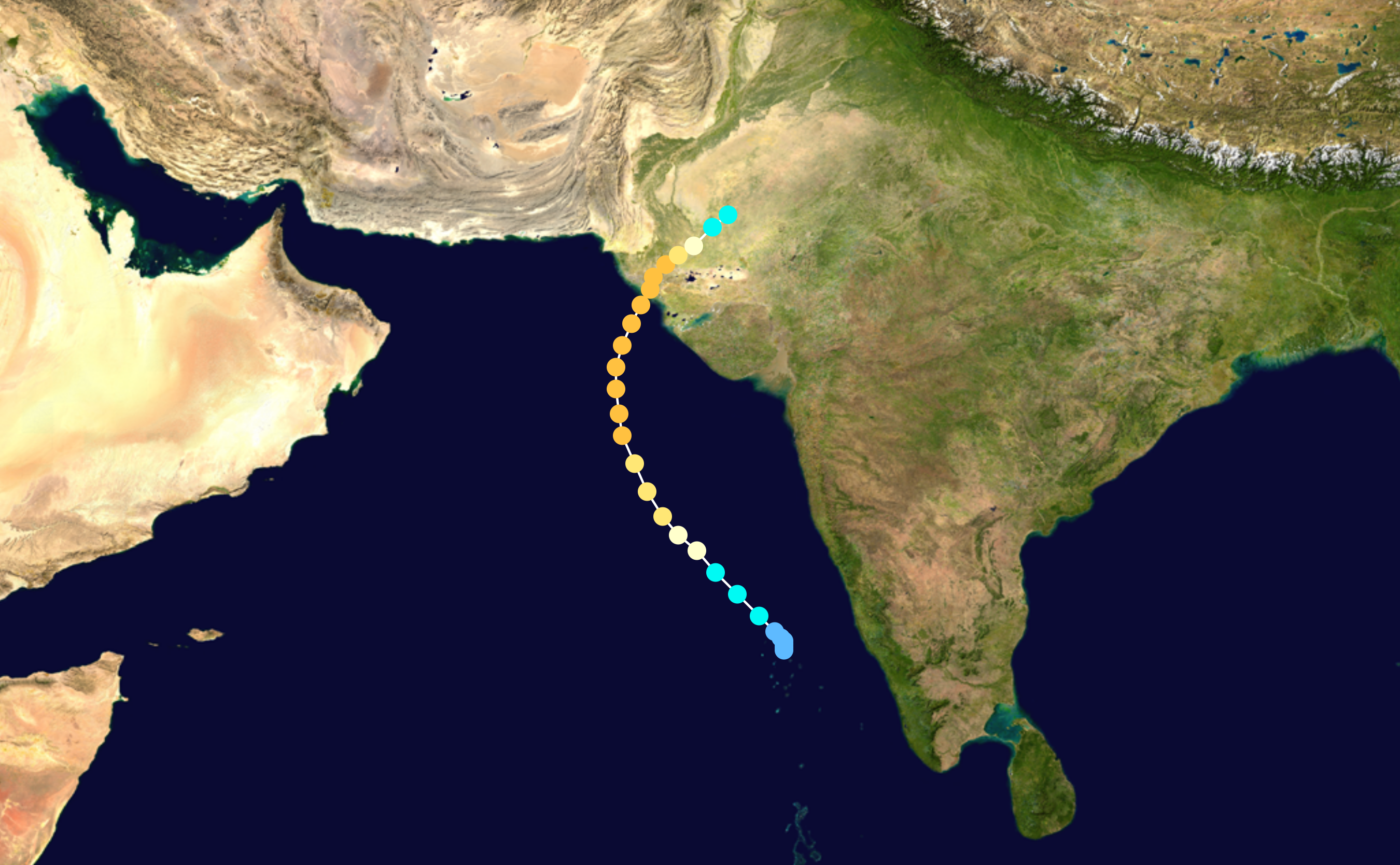 Cyclone 02A 1999 track. Uses the color scheme from the Saffir-Simpson Hurricane Scale.